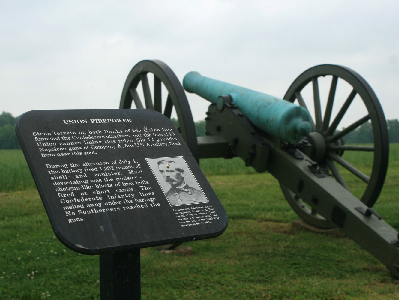 Adelbert Ames marker at Malvern Hill battlefield